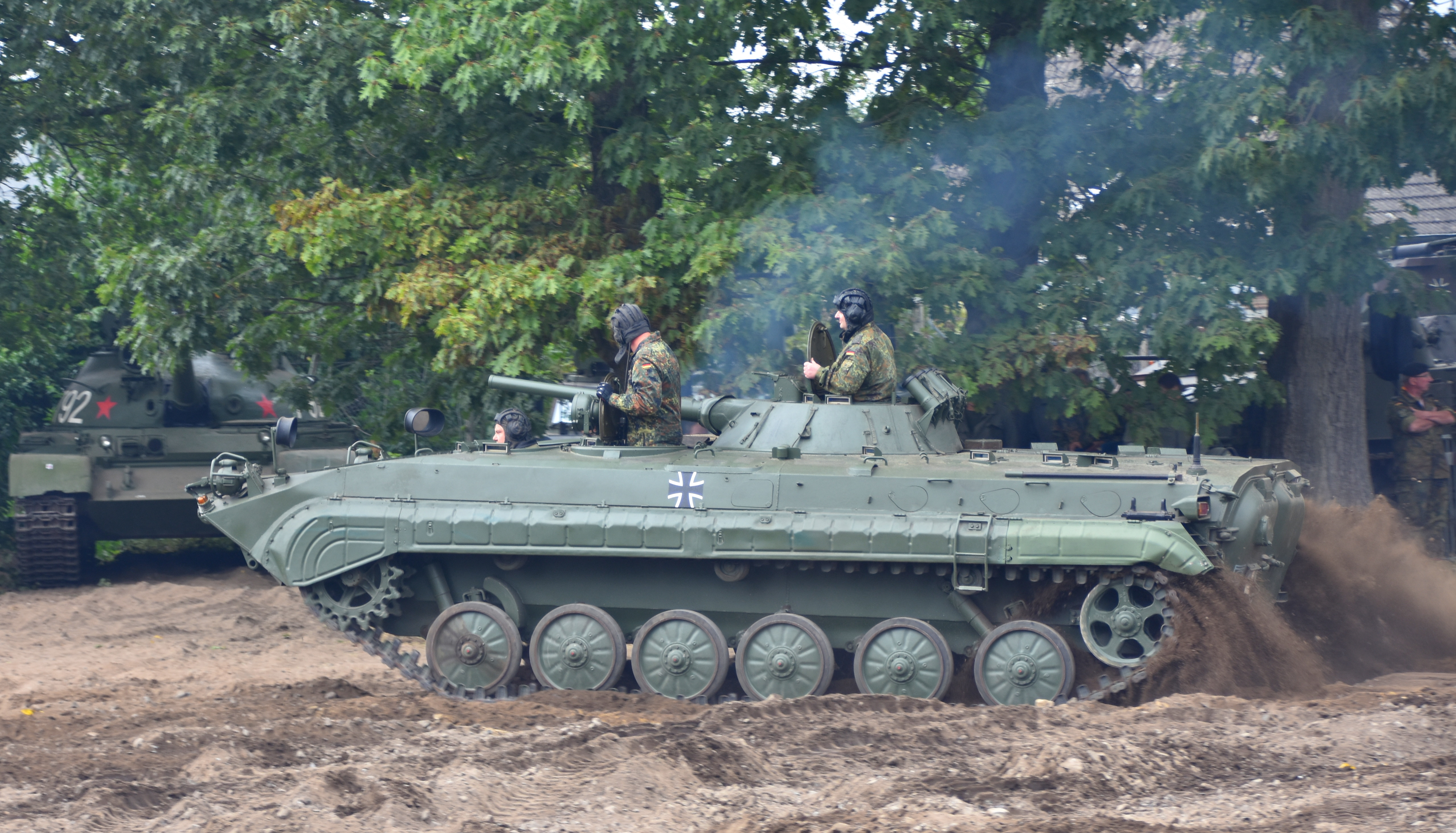 BMP-1 A1-Ost 'Bundeswehr' @ 'Stahl auf der Heide' 2019 - Deutsches Panzermuseum (German Tank Museum) Munster